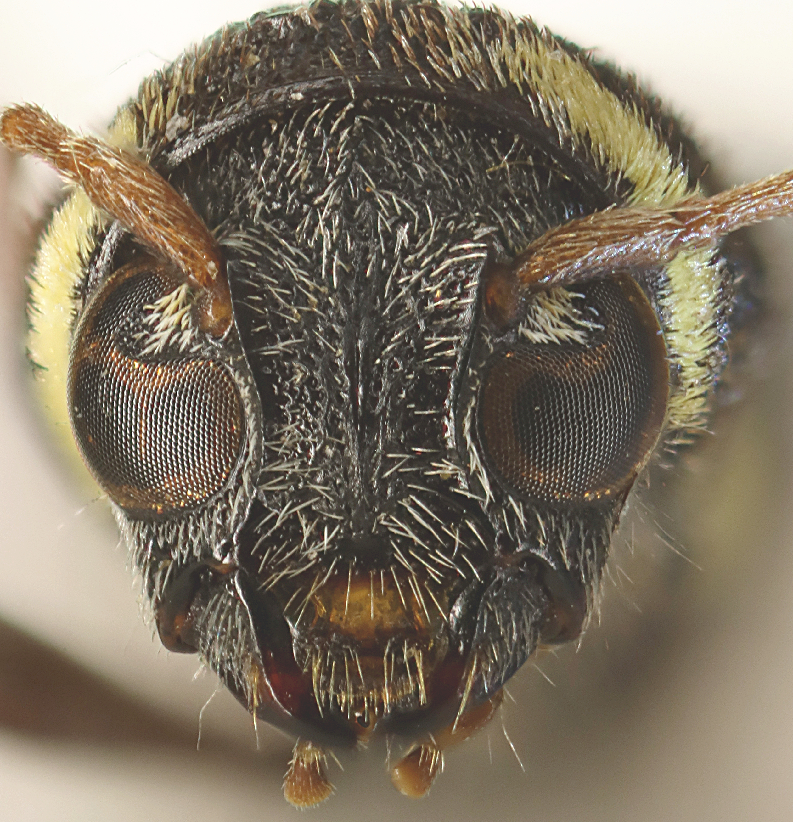 Front of head of Xylotrechus antilope